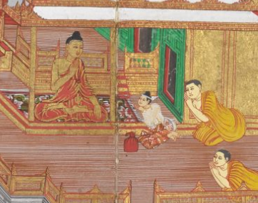 Fragment of File:Jīvaka_tending_the_Buddha.png